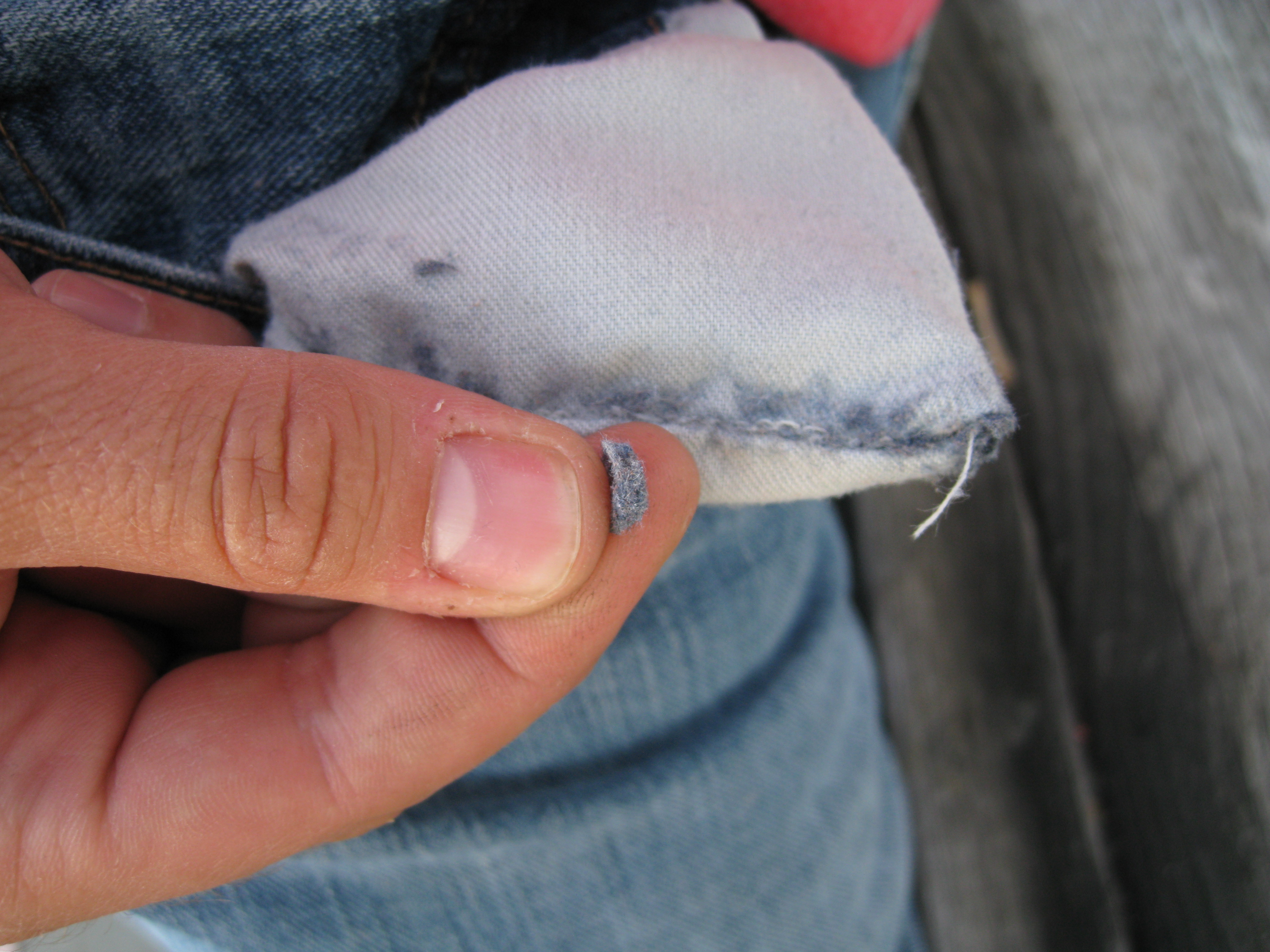 some pocket lint